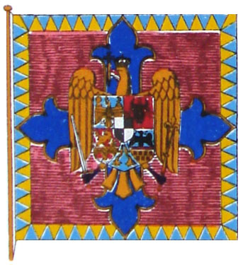 Royal standard of the Romanian King (1930s)